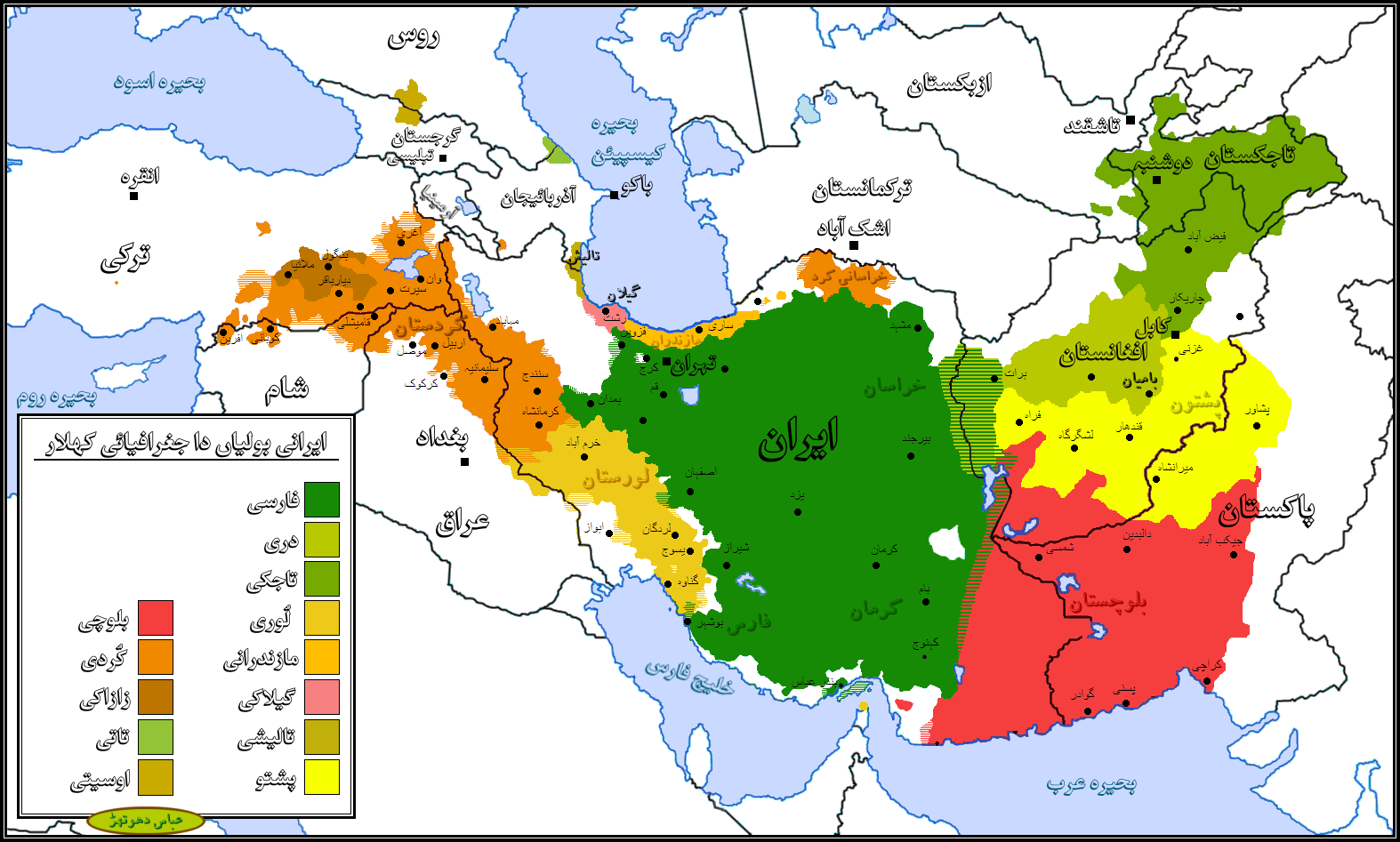 Iranian Languages Map in Shahmukhi Punjabi Language.